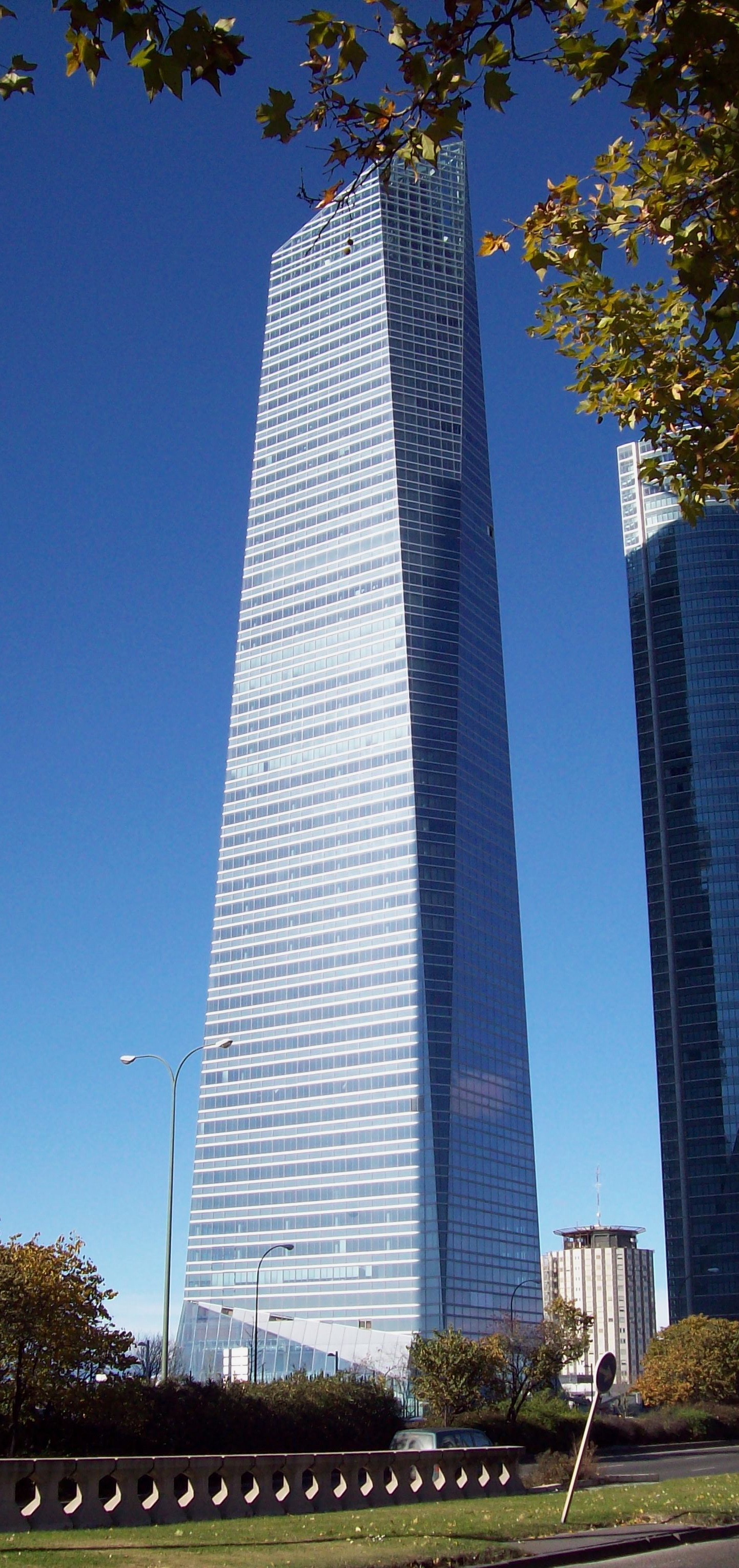 View of Torre de Cristal ("Crystal Tower") in Cuatro Torres Business Area (Madrid, Spain) from the south-east angle. Image taken from Paseo de la Castellana (avenue).